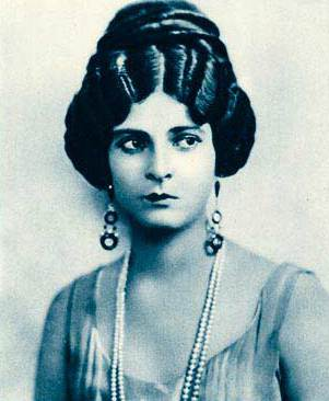 Publicity photo of Priscilla Dean from Stars of the Photoplay. Priscilla Dean, born in New York, and of a theatrical family, made her debut on the stage at the age of four. She continued her stage work a few years and then a convent school occupied her time until she was fourteen. She returned to the stage and later tried to get into pictures. She was finally signed up with Universal and is now heading her own company. Her husband, Wheeler Oakman, is a popular leading man and has played opposite her in a number of her Universal pictures. She is five feet, five inches tall, weighs 130 pounds, has brown hair and eyes.